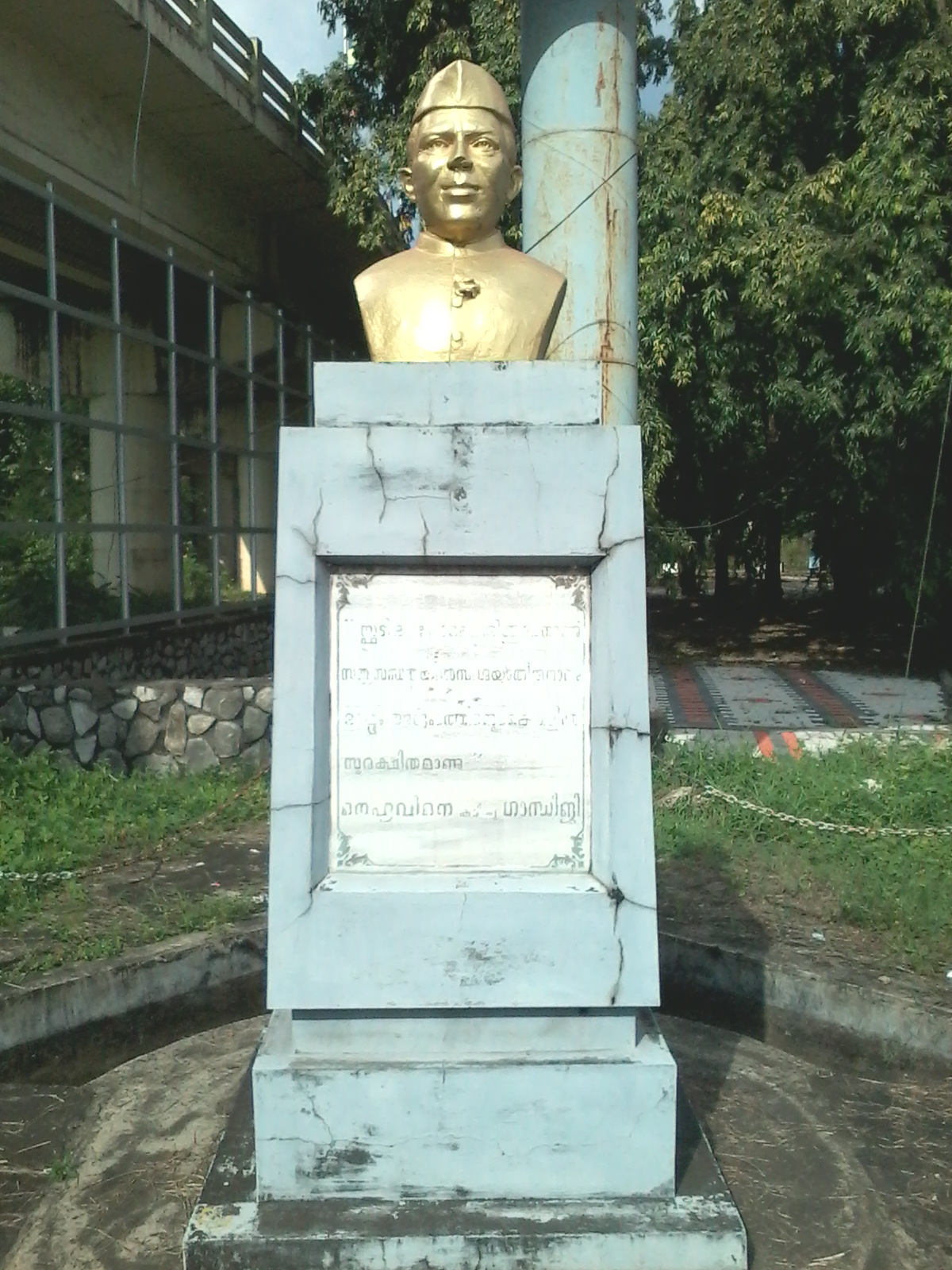 The Statue of Jawaharlal Nehru is located at Nehru Park, Kollam, Kerala in India.